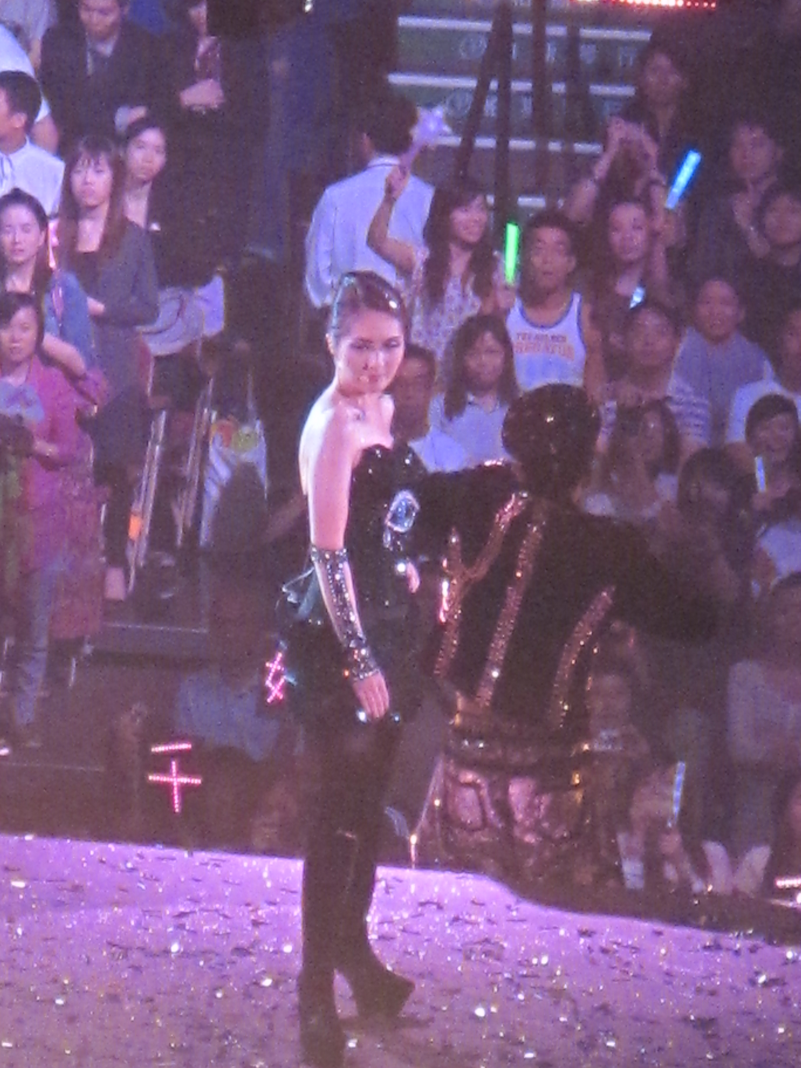 Miriam Yeung 2010